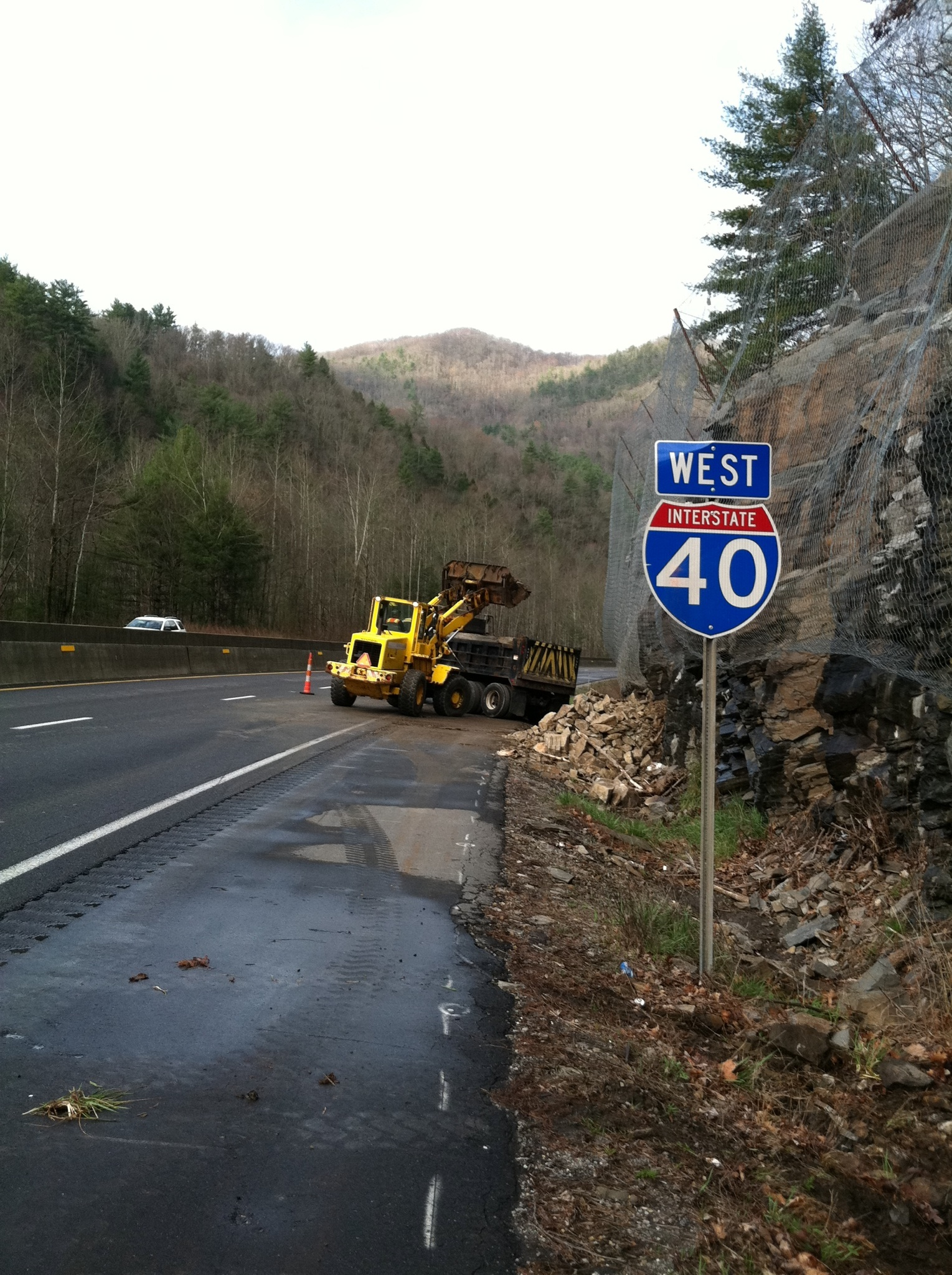 Crews clearing the outside lane of I-40 West at Mile Marker 7 in Haywood County following a rockslide.